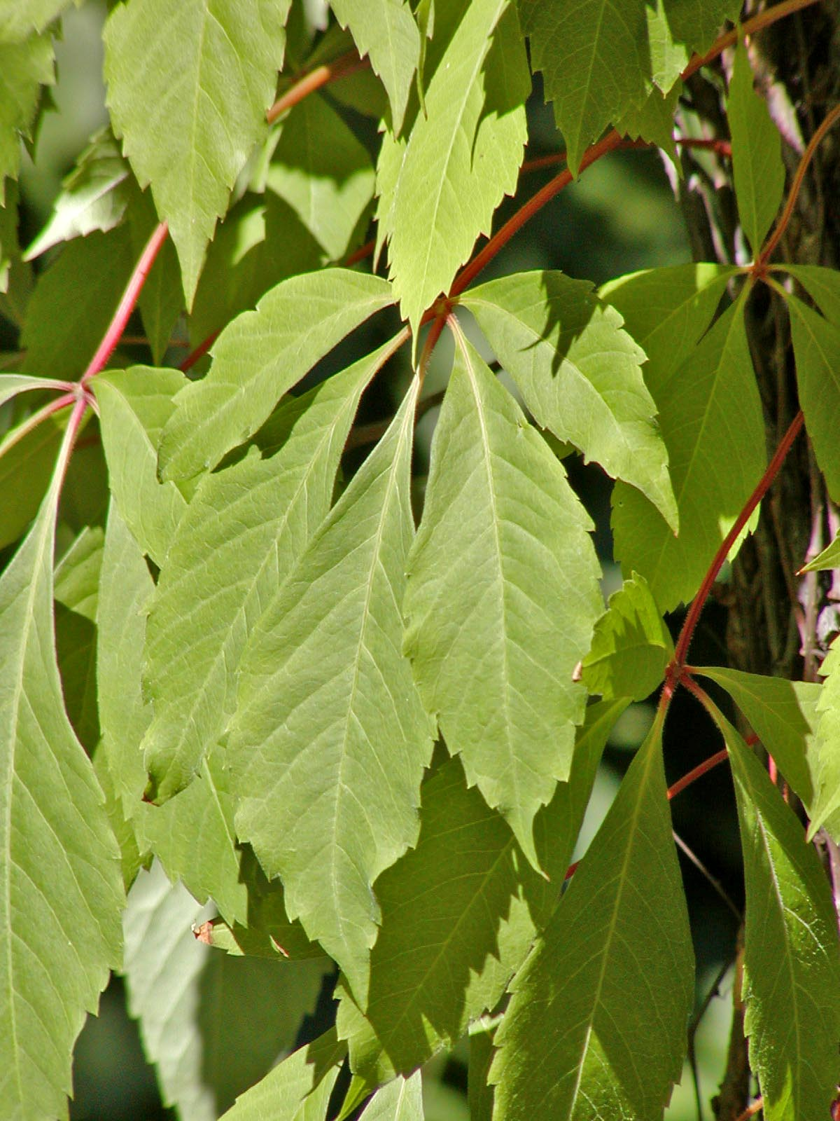 Photo of Parthenocissus quinquefolia var. engelmannii at Aarhus Botanical Garden